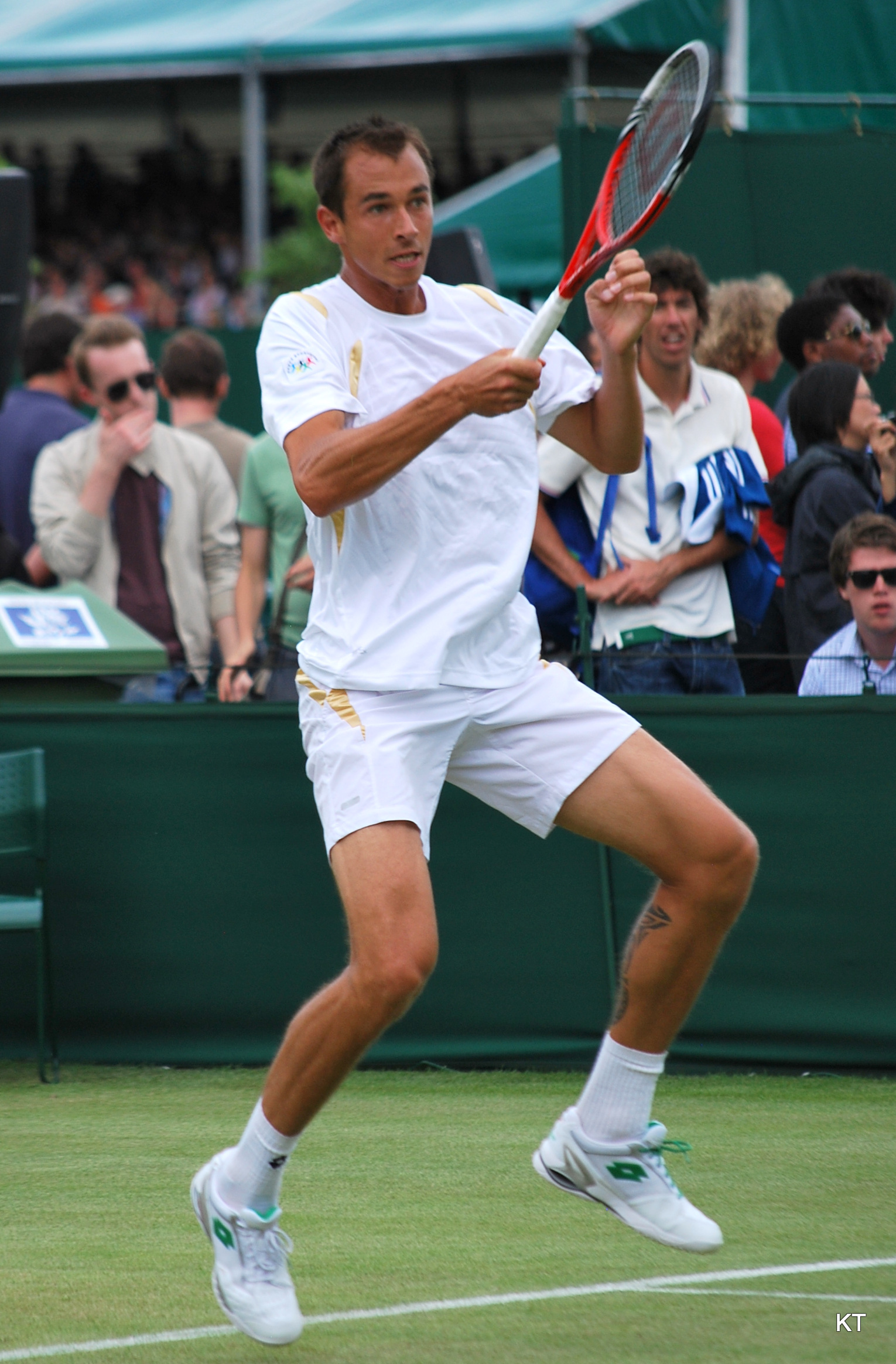 Lukas Rosol during his first round match with Ivan Dodig. Rosol won 6-4, 3-6, 7-6, 7-5. Day 2 of Wimbledon 2012.